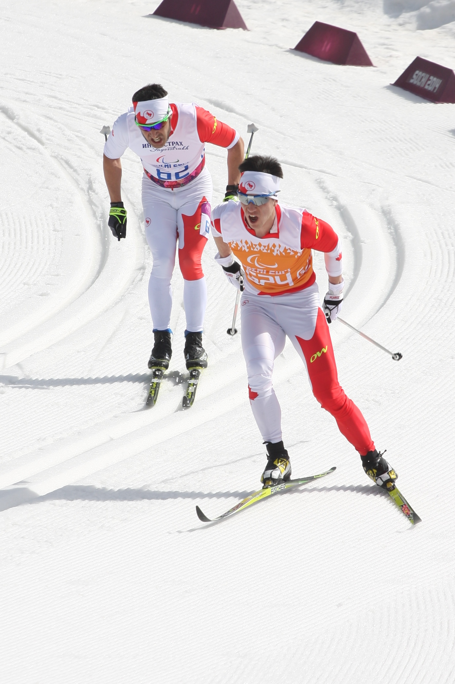 Brian McKeever on 2014 Winter Paralympics